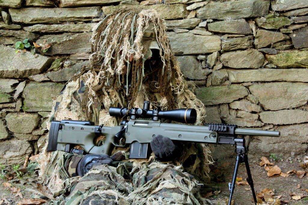 TMR AMBIENTATO